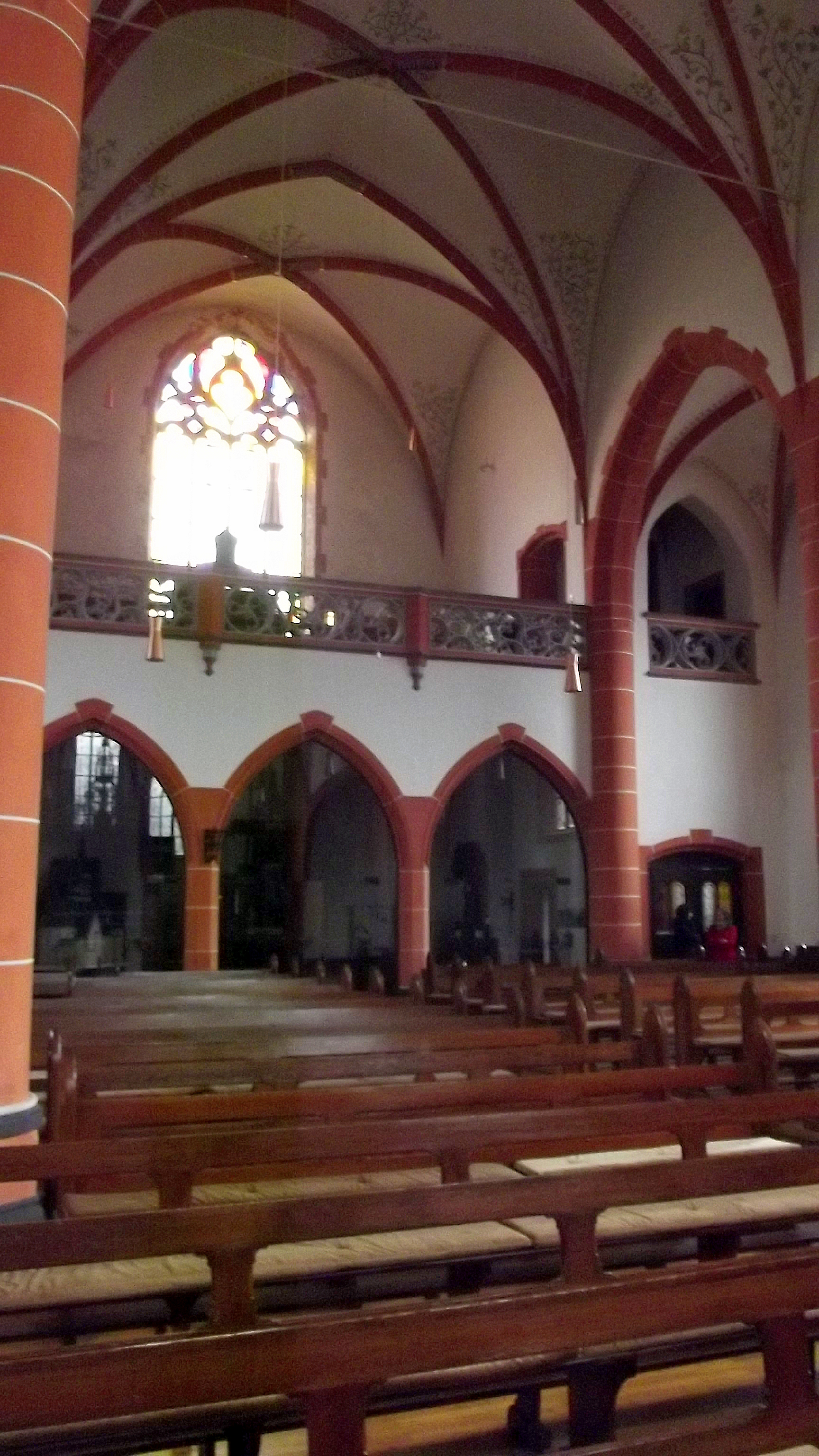 Church of Nonnweiler (Saarland)